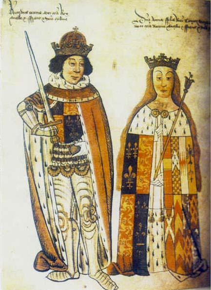 Richard III and Anne Neville from the Rous Roll